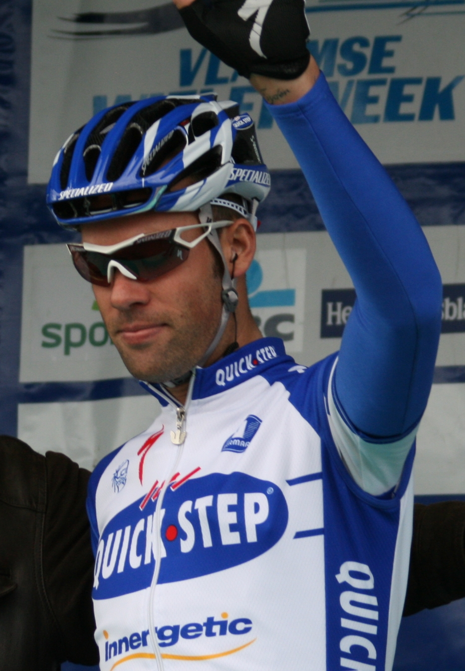 Kevin Van Impe au départ de l'E3 Prijs 2009